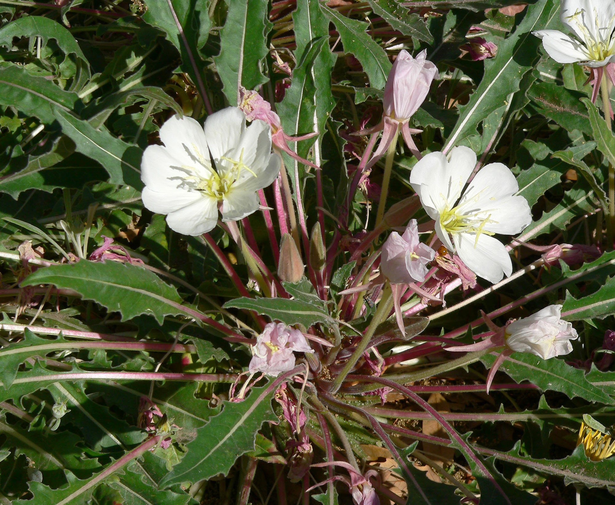 Oenothera caespitosa at the Springs Preserve garden, Las Vegas, Nevada